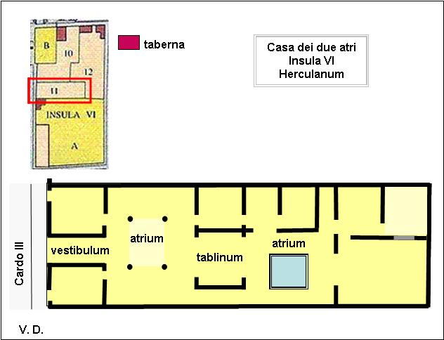 map of house with two atria, Herculanum